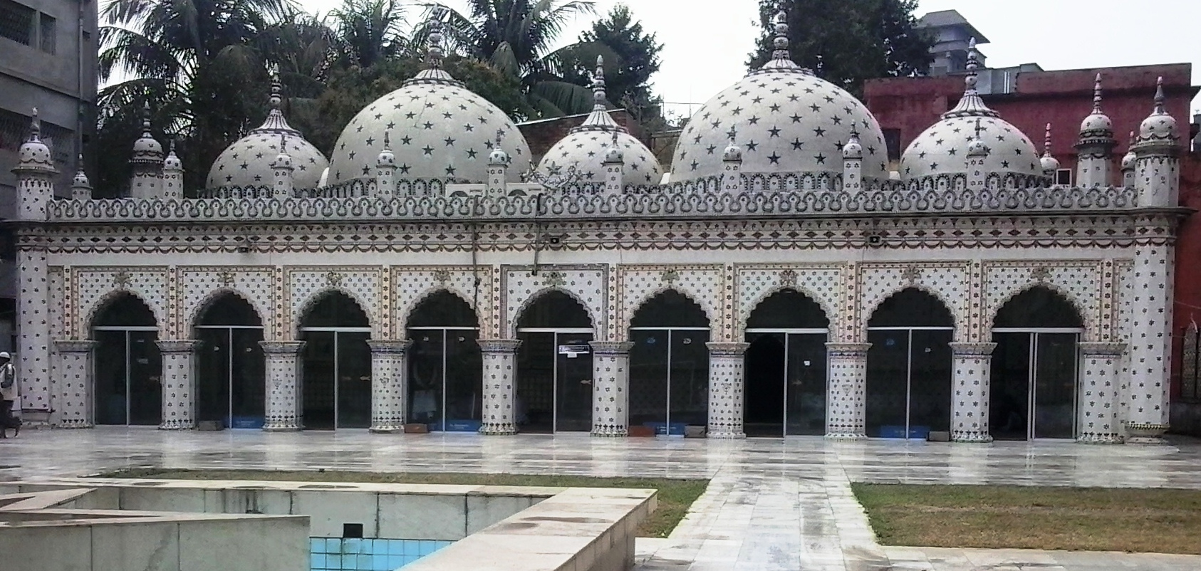 Tara mosjid, (Star mosque), Dhaka